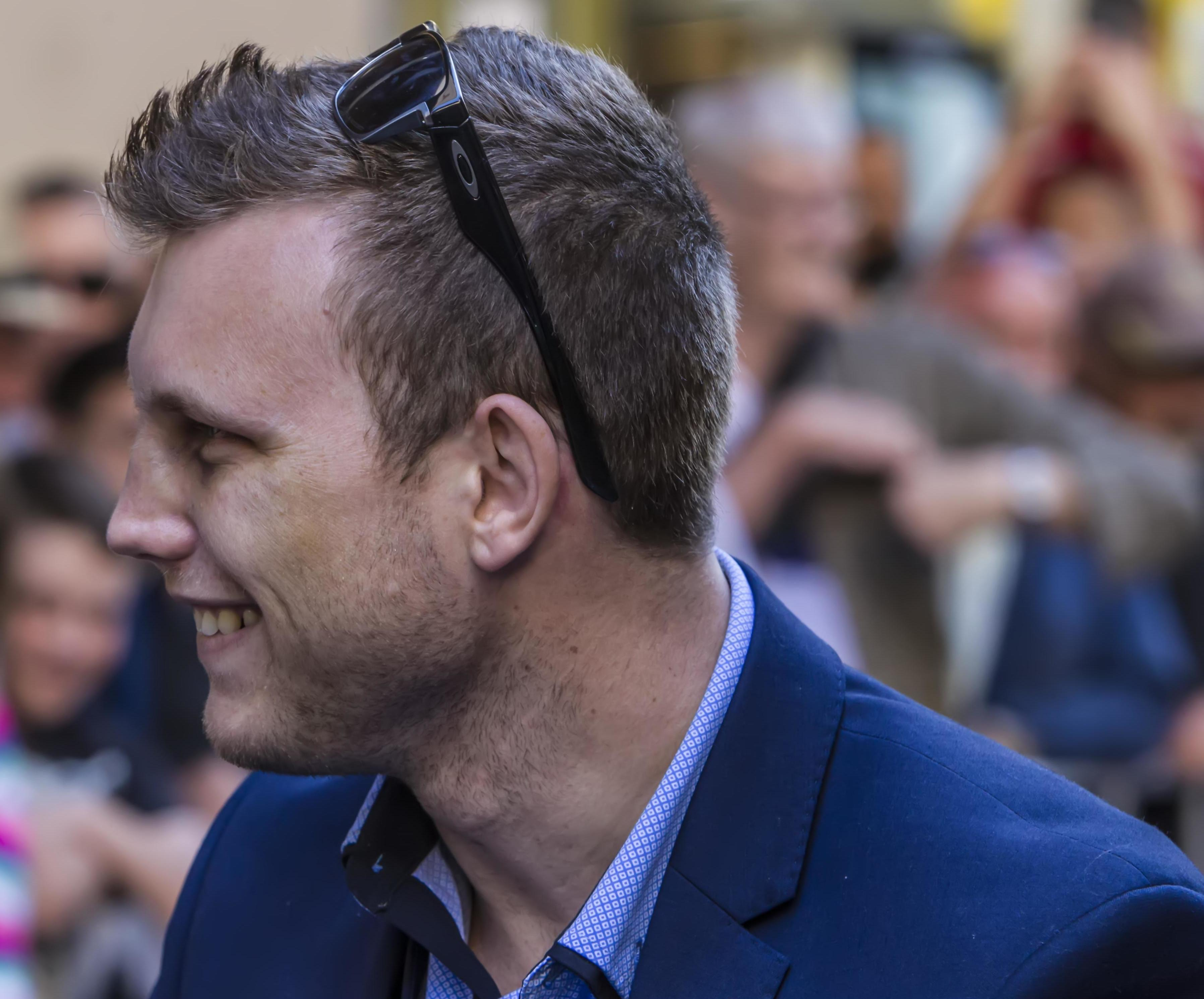 Queenslander Jeff Horn, Welterweight World Champion Boxer